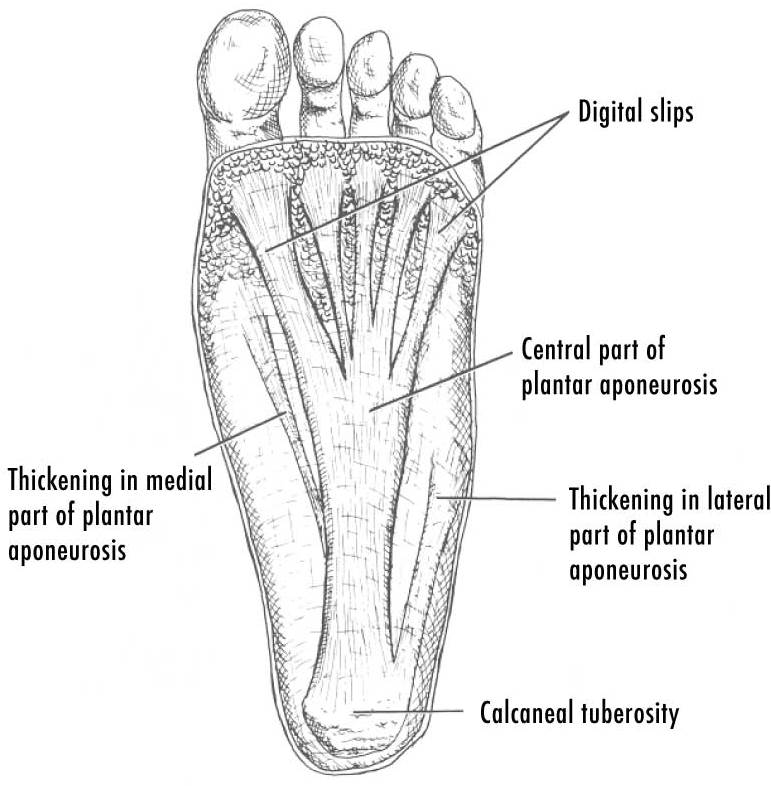 Drawing of the planter fascia of the foot